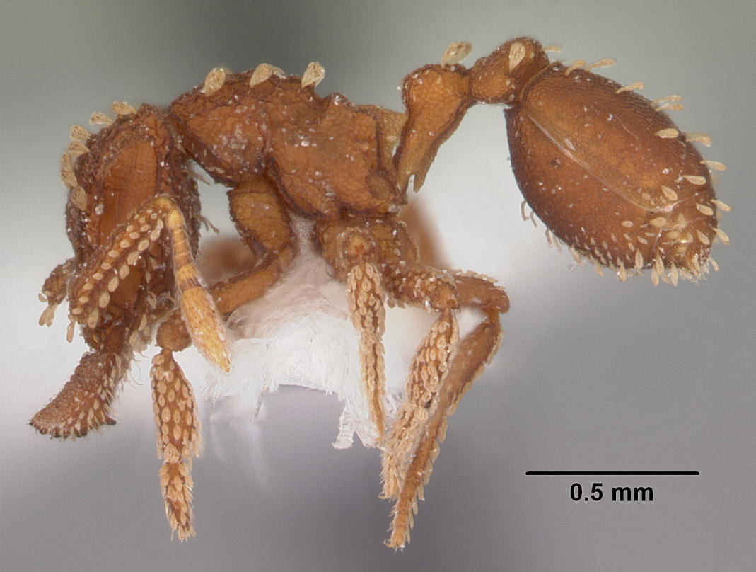 Profile view of ant Talaridris mandibularis specimen casent0102365.